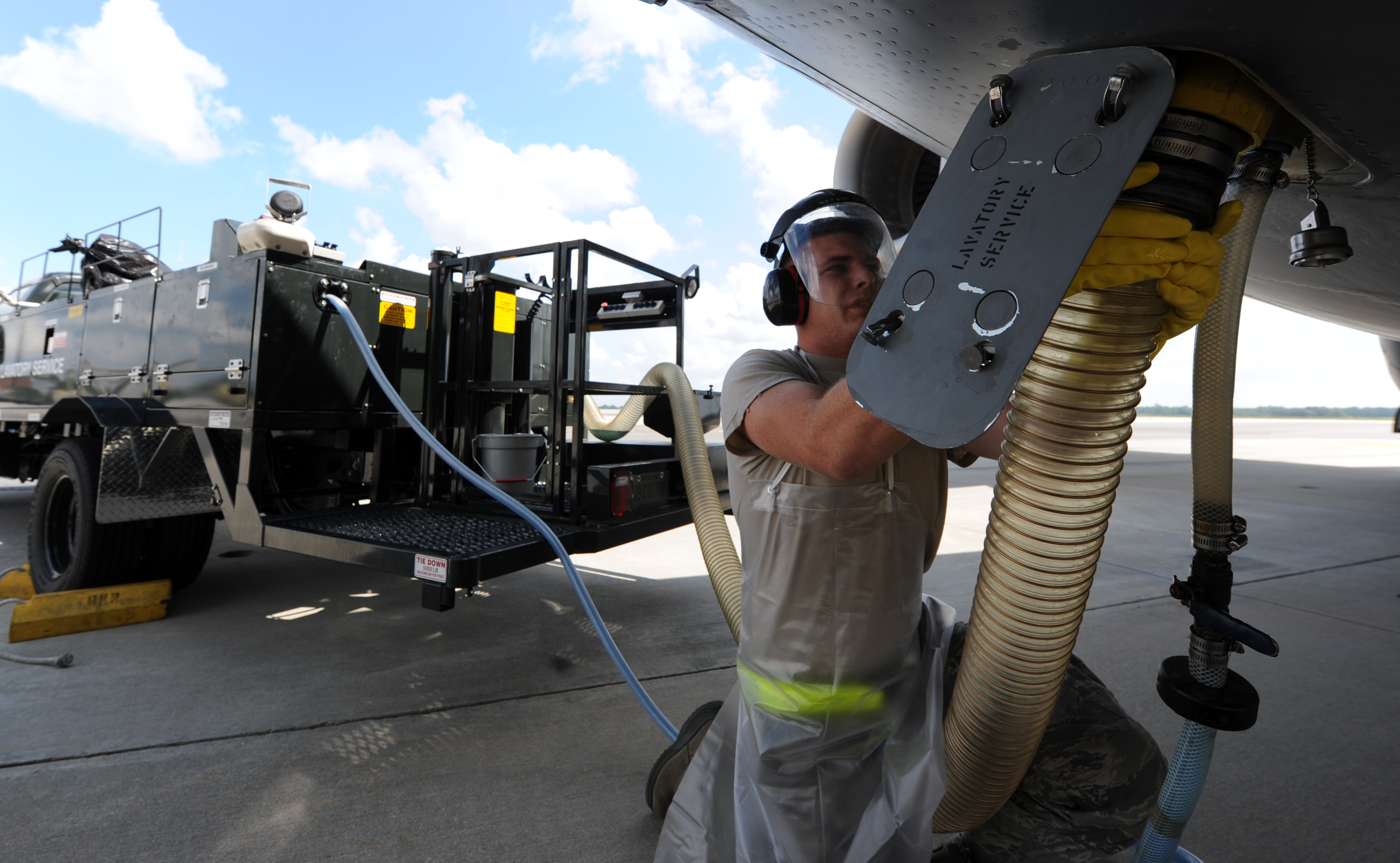 9/8/2010 - Airman 1st Class Jeffrey Montgomery connects the waste suction hose to the lavatory service outlet on the underbelly of a C-17 Globemaster III Sept. 7, 2010, on Joint Base Charleston, S.C. Airmen on lavatory service duty first pump water into the tank to break apart waste particles making the removal process smoother. Once the waste is removed, "Blue Juice" is pumped back into the system which is a cocktail comprised of water, anti-freeze and an anti-smell agent. Airmen service every C-17 upon landing and sometimes before take-off. Airman Montgomery is an air transportation technician with the 437th Aerial Port Squadron. (U.S. Air Force photo/Senior Airman Timothy Taylor)